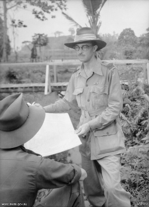 Australian War Memorial image 100584. Gavin Long, the Official Australian War Historian, in Lae, New Guinea while attached to HQ, New Guinea Force